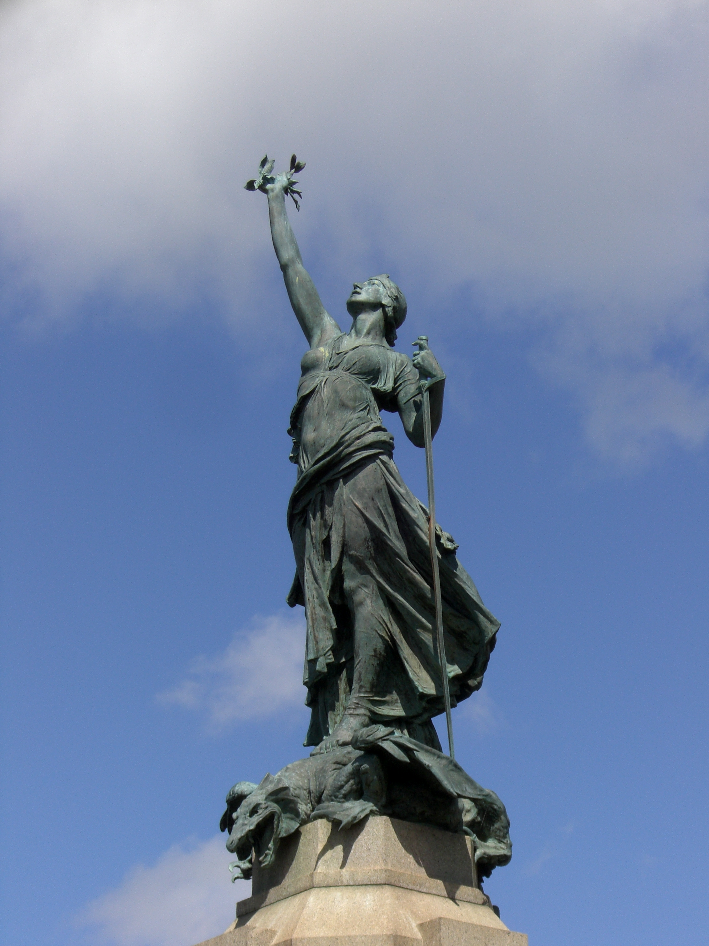 Statue of Victory on the city war memorial in Northernhay Gardens, Exeter. Made by John Angel and unveiled in 1923.